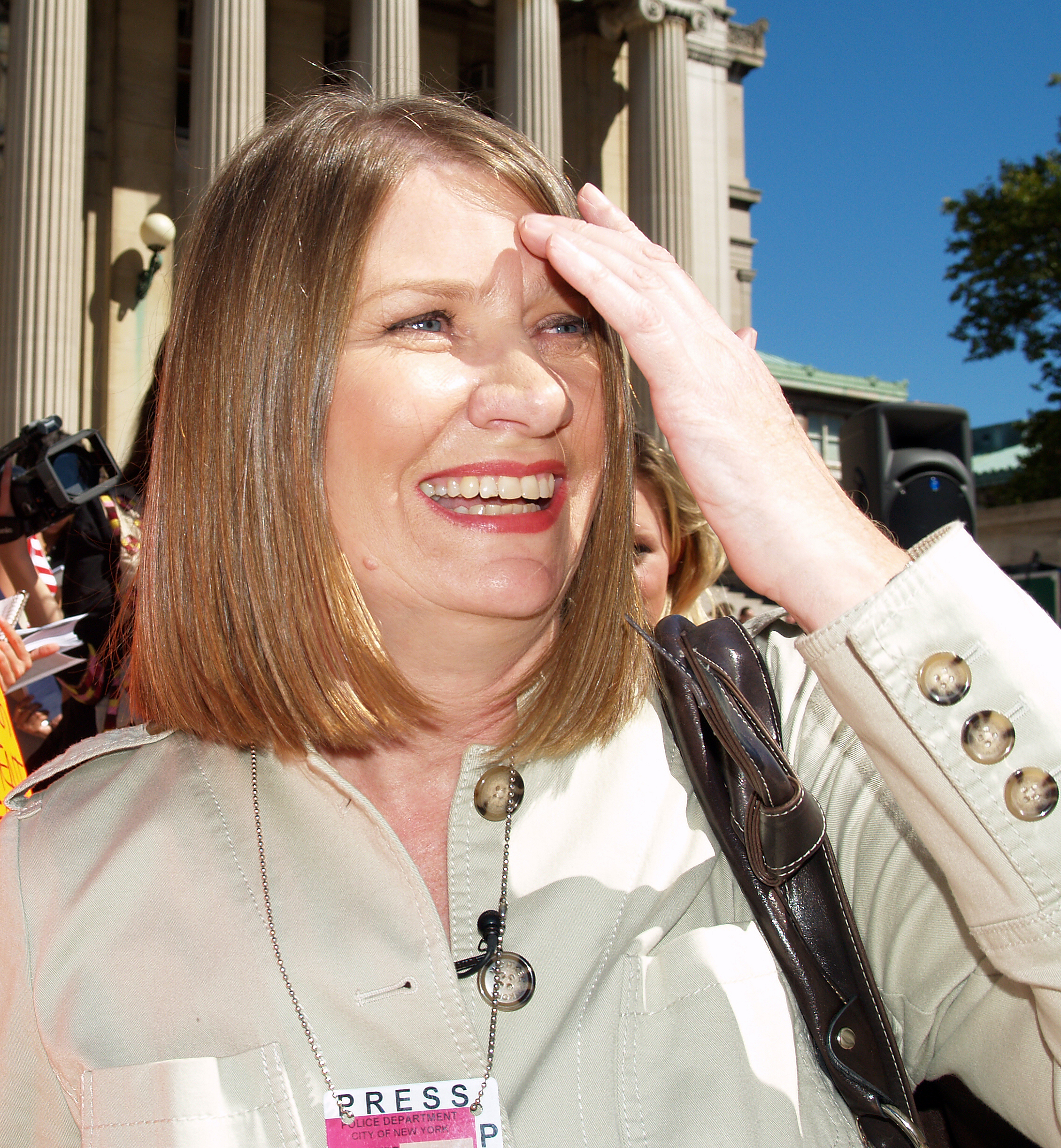 Jeanne Moos by David Shankbone